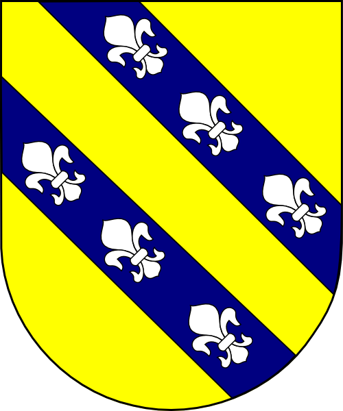 Coat of arms (shield only) of Antun Vrančić / Antal Verancsics, bishop of Eger, Hungary (1557 - 1569), archbishop of Esztergom, Hungary (1569 - 1573)